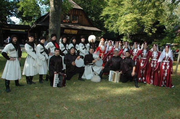 tipsa